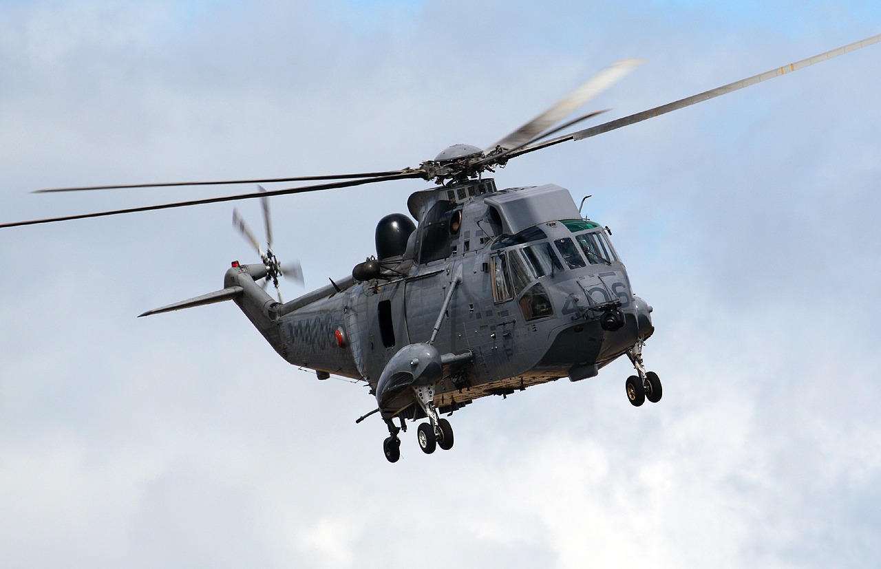 Canadian CH-124A Sea King (S-61B). Photographed at Victoria International Airport (YYJ / CYYJ), British Columbia, Canada, August 30, 2006.